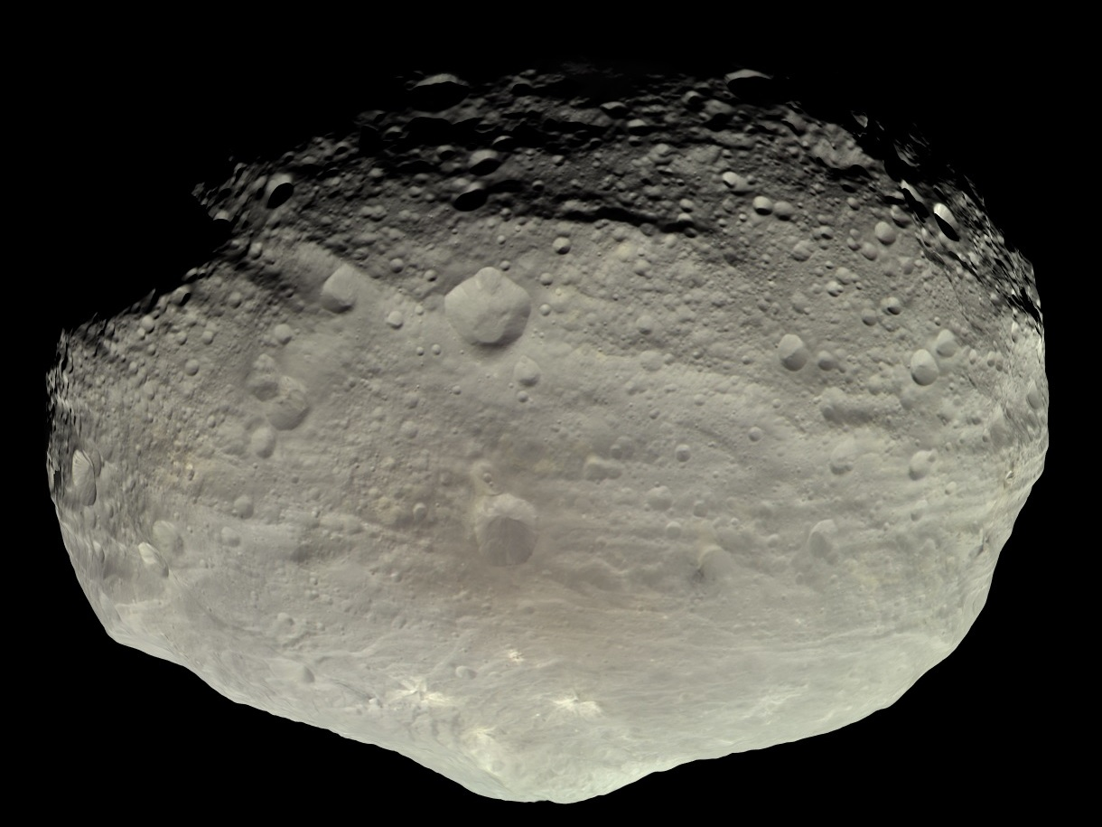 Vesta is a colorful world; craters of a variety of ages make splashes of lighter and darker brown against its surface. This photo was processed from data acquired on July 24, 2011, from a distance of about 5200 kilometers, during the third "rotation characterization" observation by Dawn.